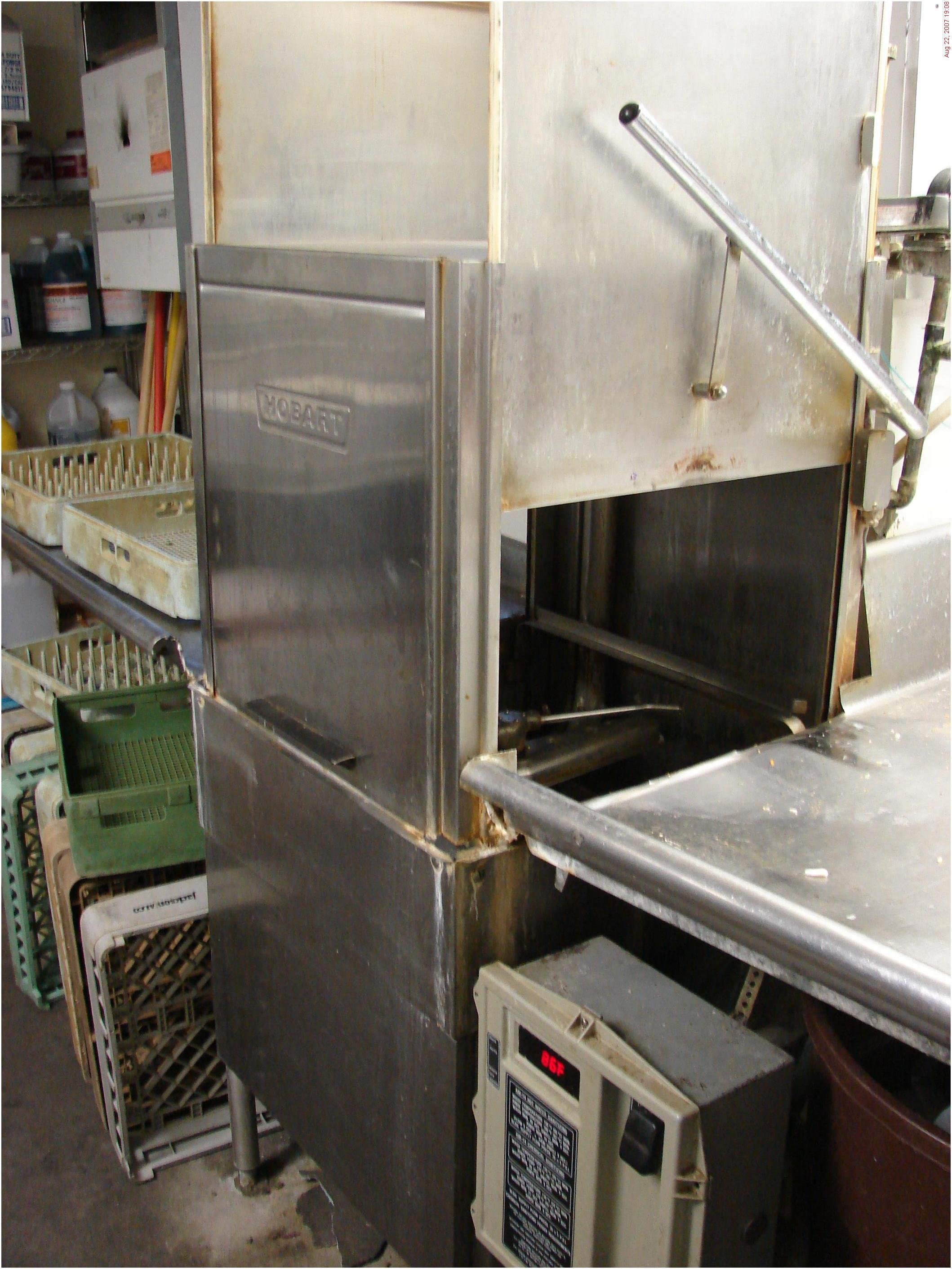 This is a picture of a Hobart Industrial Dishwasher, such as are used in many restaurants and cafeterias. (I took this picture myself. (No, the face below on the GFDL license is not what I really look like :-)